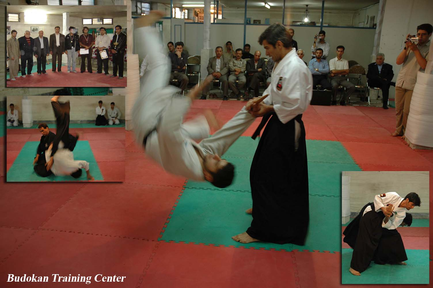 Budokan Training Center